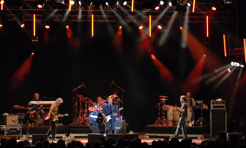 Jazz-rock group Little Feat performing at Stockholm JazzFest09